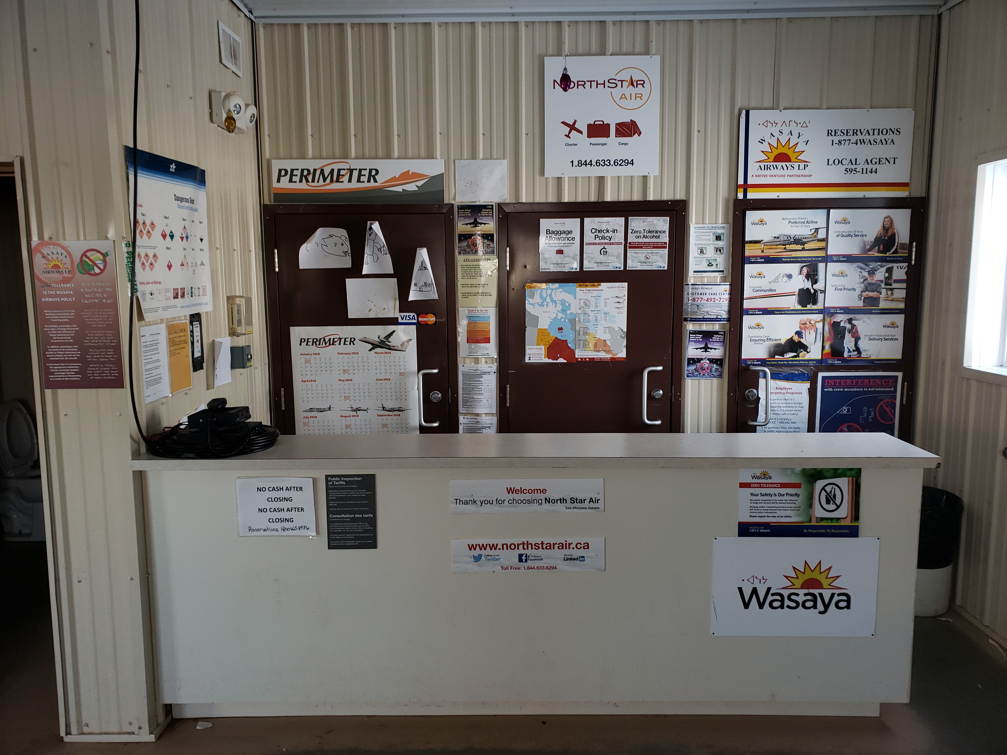 Interior of the current Airport at Sachigo Lake First Nation